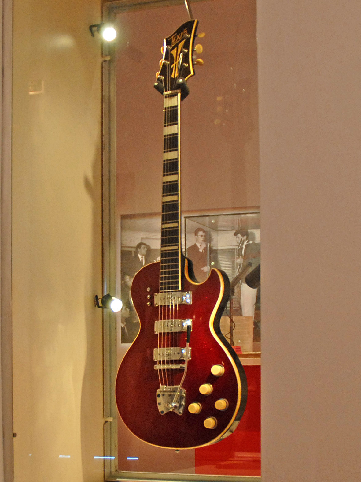 Jacobacci Texas guitar, exhibited at the Mupop (musée des instruments et des musiques populaires) in Montluçon, France